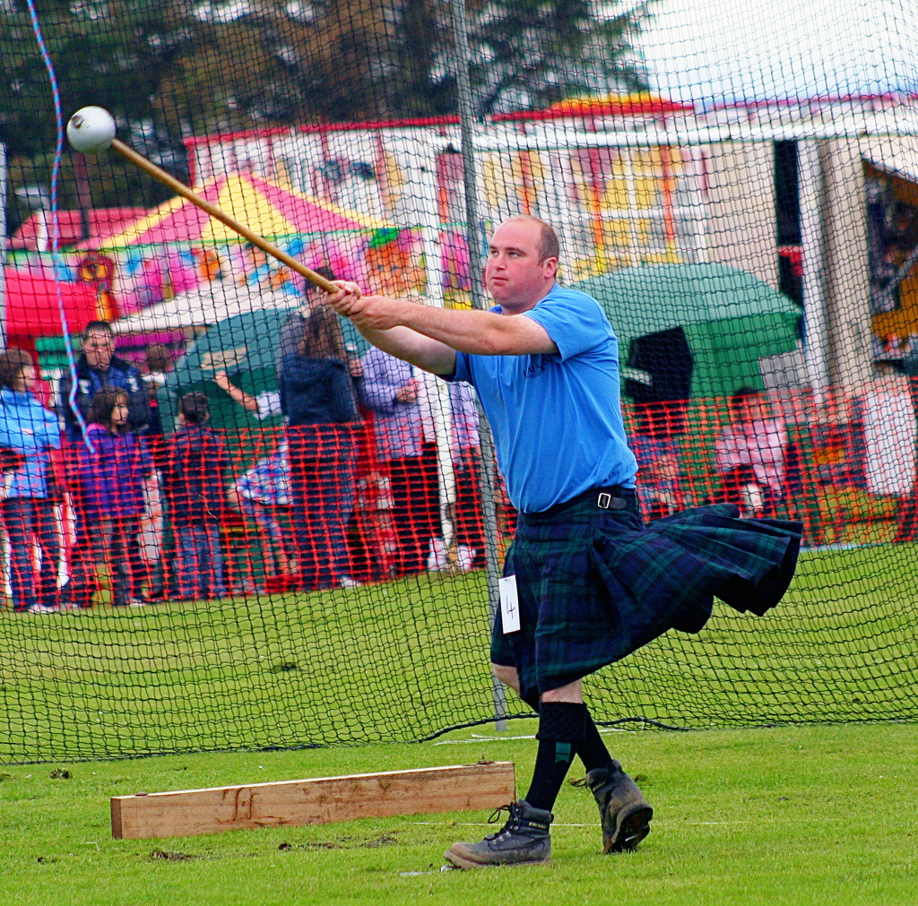 A hammer thrower at a Highland games event in Dornoch, Scotland